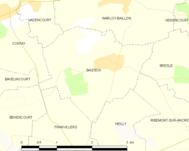 Map of French municipality Baizieux